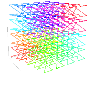 Lebesgue 3D curve, iteration 3